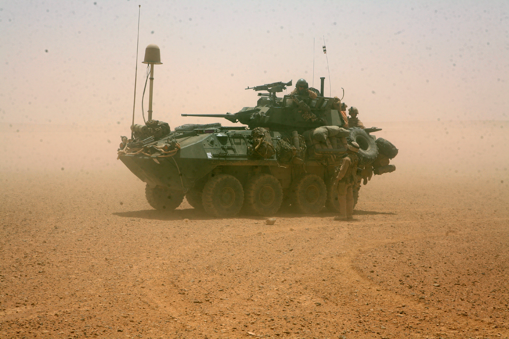 A light armored vehicle with Charlie Company, 2nd Light Armored Reconnaissance Battalion, Regimental Combat Team 5 provides security for Marines having dinner with a local Iraqi household while conducting operations in the western part of Al Anbar province, Iraq, May 13. The company conducts these operations to assist the Iraqi Border Patrol with searching for smugglers and threats. The Marines ensure the bond with the citizens remains intact by constantly visiting them and keeping the area secure.